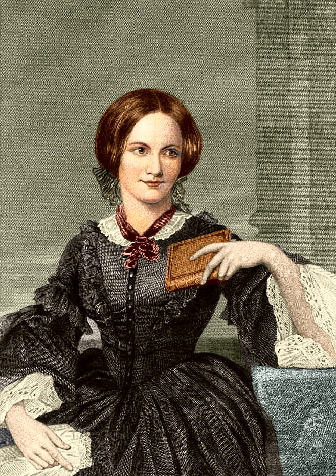 Portrait of Charlotte Brontë